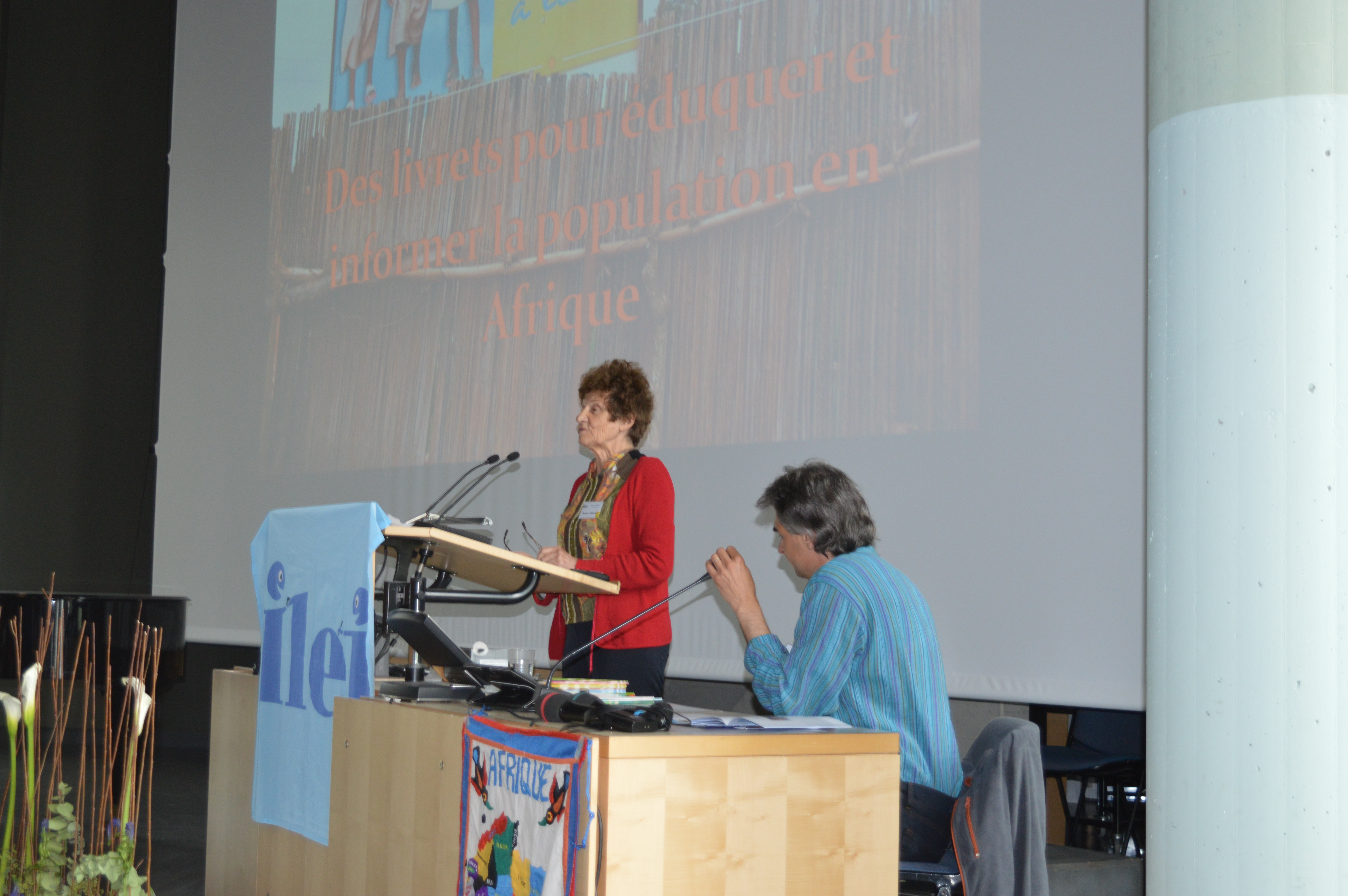 Monique Arnaud speaks during the third international conference on Esperanto teachting, canton of Neuchatel, SwitzerlandEsperanto: Monique Arnaud dum la tria konferenco pri Esperanto-instruado, Neŭŝatelo, Svislando